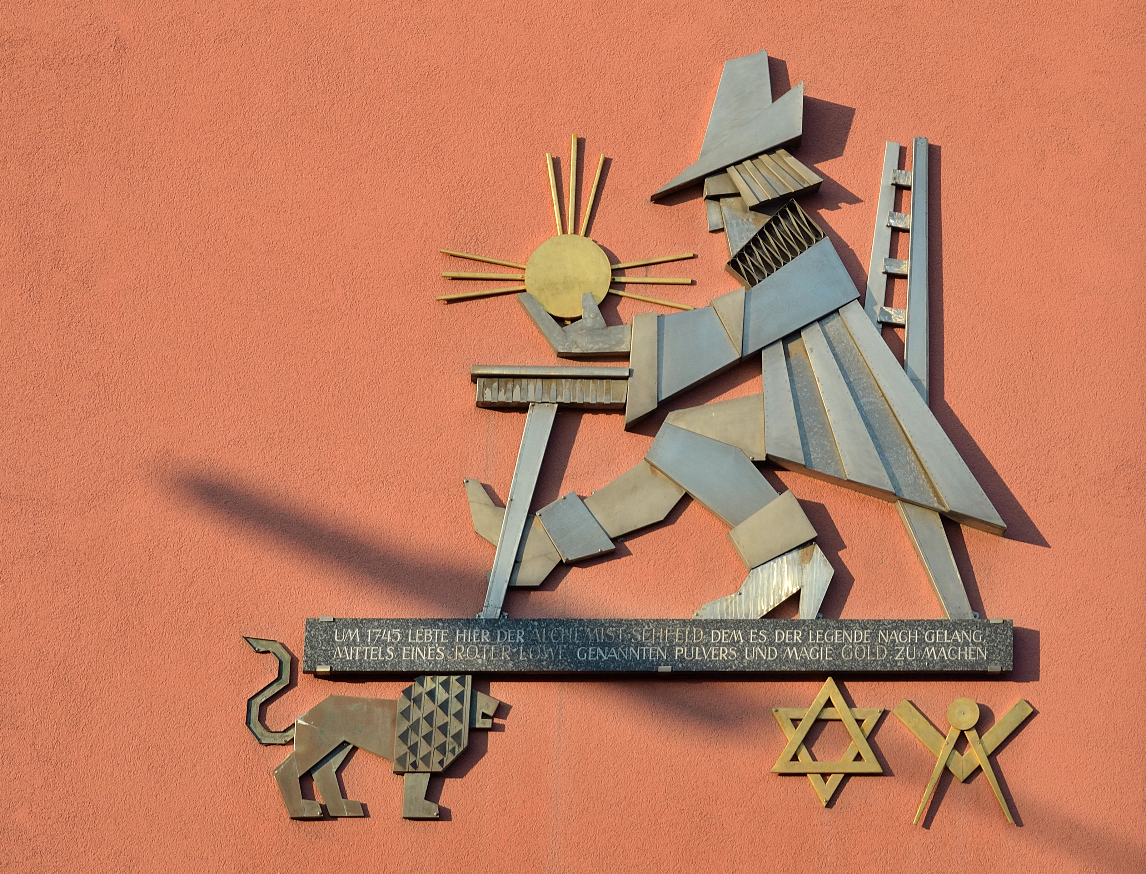 A sculpture for alchemist Sehfeld at Ketzergasse 372, Liesing, Vienna.